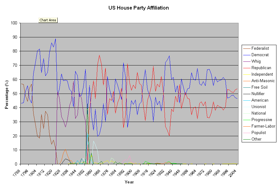 Chart shows the percentage of the United States House of Representatives held by various parties from 1789 until 2004. (as elected in the biennial elections) Occasionally terms are applied in a slightly anachronistic way, such as for Federalists and Democratic-Republicans in the first few years on the Congress, or for Whigs during Jackson's presidency. Notable features include the near absence of minor parties, and the narrowness of the current majority by historical standards.